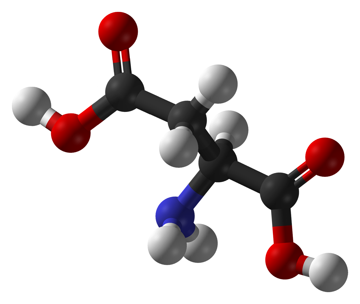 Ball and stick model of the aspartic acid molecule.